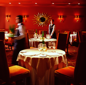 Esperante Restaurant, St Andrews, Scotland